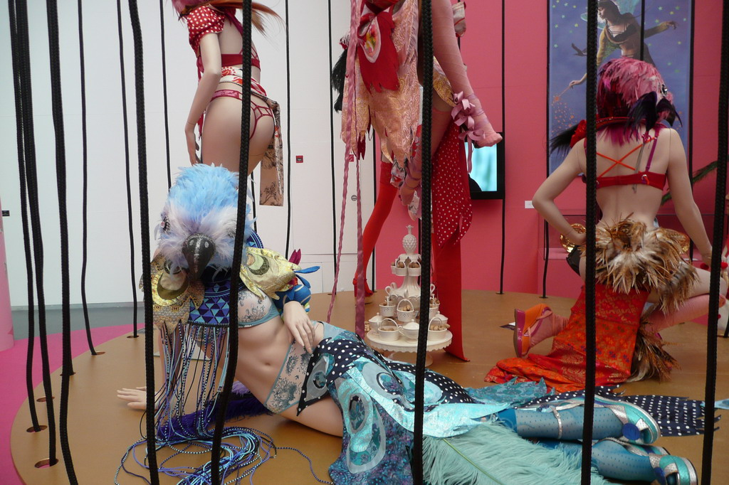 Marlies Dekkers, Dutch designer, retrospective exhibit "15 years of Marlies Dekkers" at Rotterdam Museum